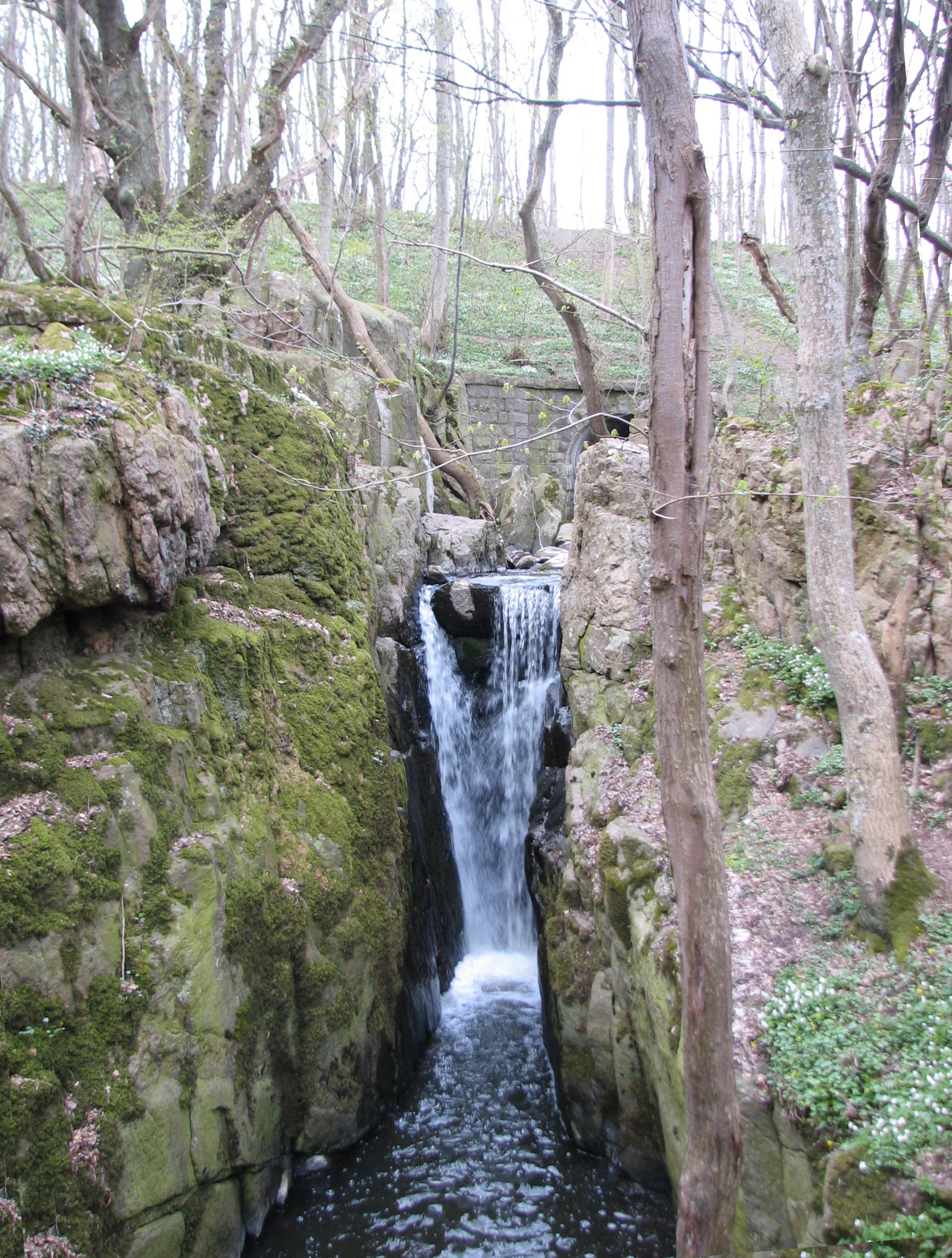 Waterfall on Bornholm (Denmark)